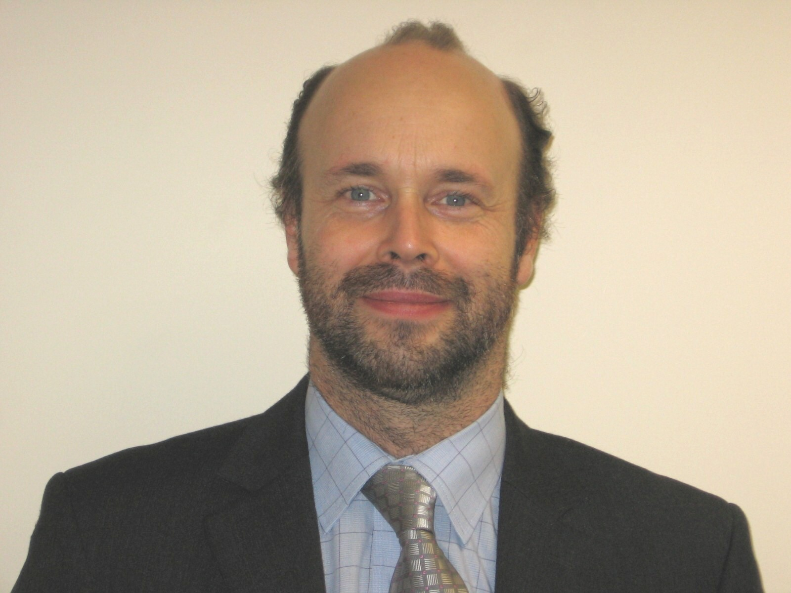 Photo given to me by Huw Dixon